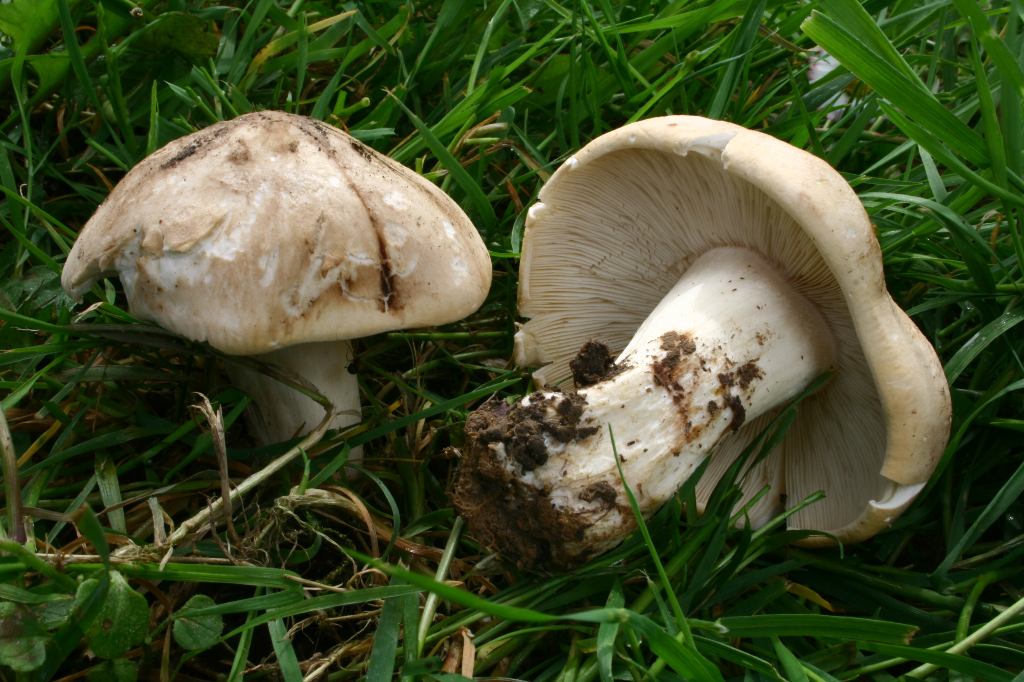 Calocybe gambosa (= Tricholoma gambosum), St. George's mushroom, in a park near Massy, France.